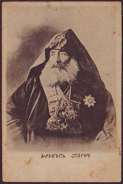 Khrimian hayrik